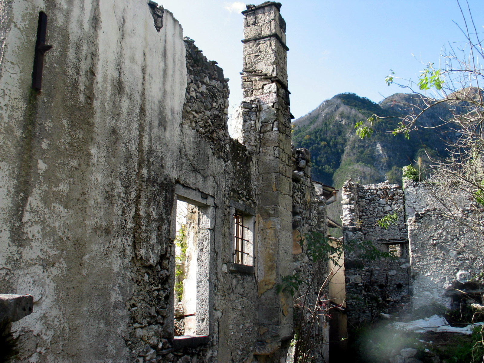 Rotten houses in Moggessa di Là, a nearly abandoned village near Moggio Udinese / Friuli-Venezia Giulia / Italy / EU.